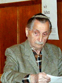 Marko Feingold in the Salzburg synagogue Photograph by Gakuro 2005